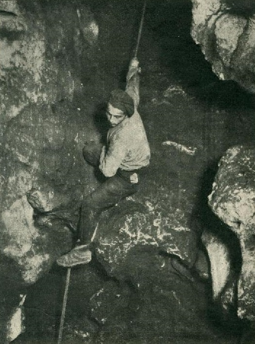 The Solymár Cave.